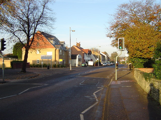 Eastfield Road, Peterborough. Looking north along Eastfield Road, virtually opposite the eastern entrance of Peterborough Regional College.